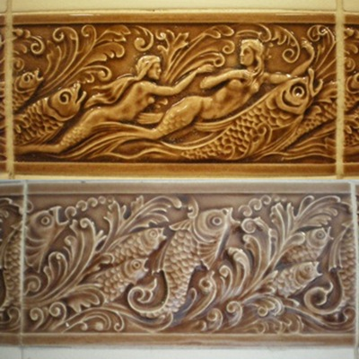 Tiles in the Széchenyi Bath in Budapest